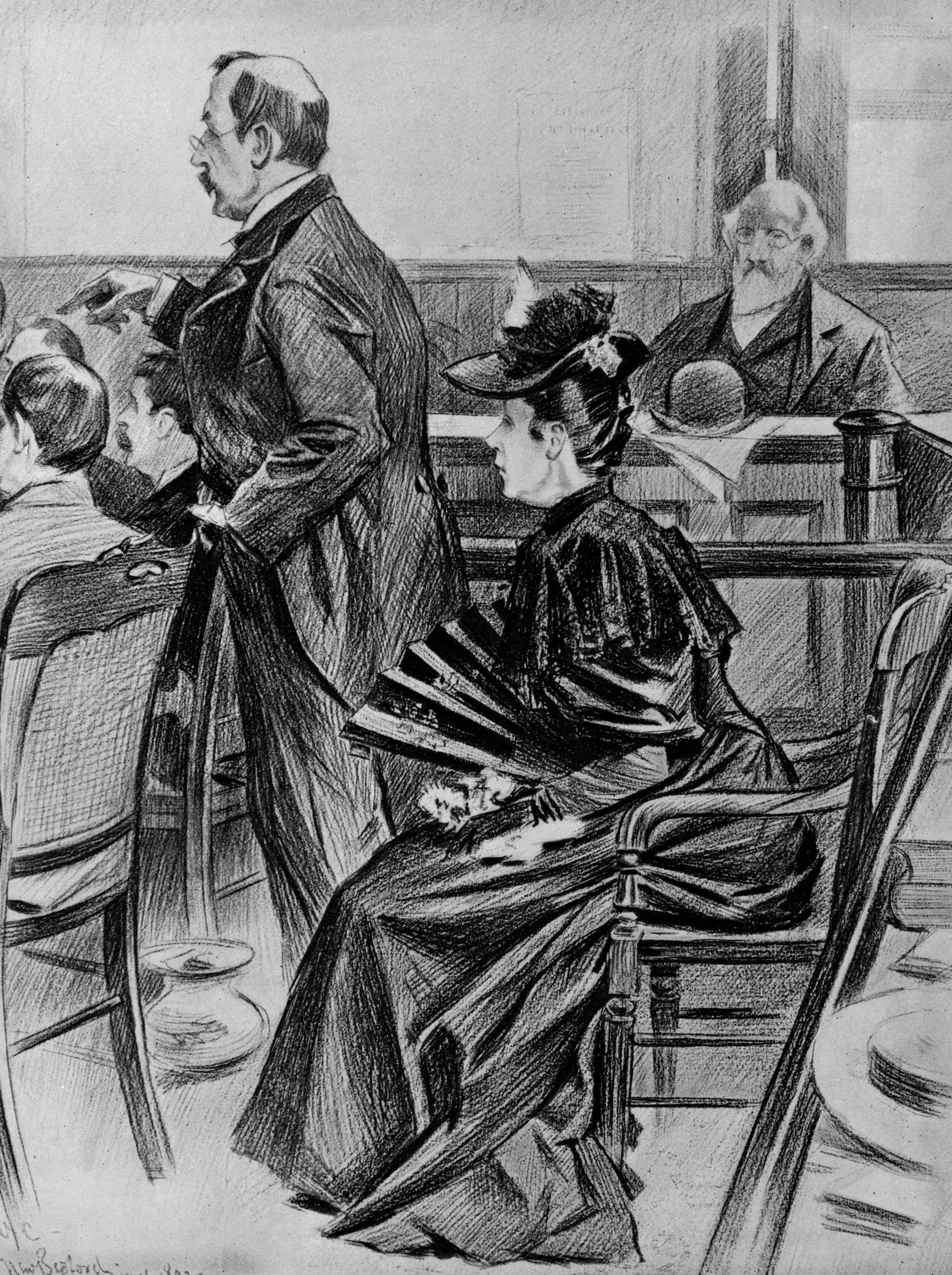 The Borden murder trial—A scene in the court-room before the acquittal - Lizzie Borden, the accused, and her counsel, Ex-Governor Robinson. Illustration in Frank Leslie's illustrated newspaper, v. 76 (1893 June 29), p. 411.